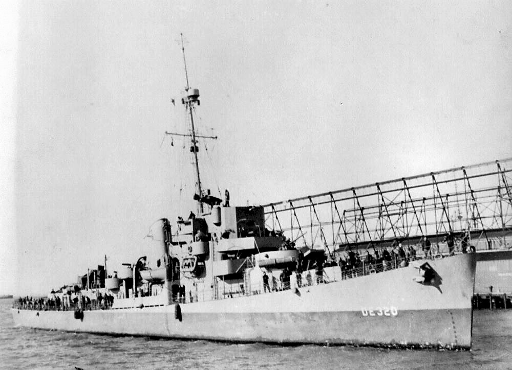 USS Menges (DE-320) in an undated, Official USCG photo, location unknown.